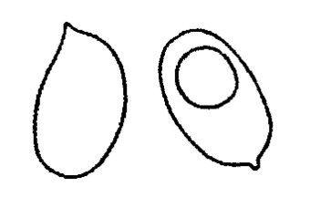 Spores of Mycena epipterygia